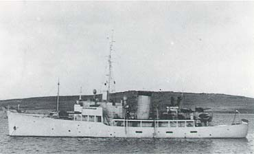 The Royal Norwegian Navy patrol boat HNoMS Nordkapp off Iceland.